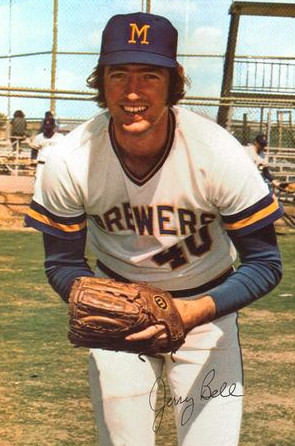 Professional baseball player Jerry Bell